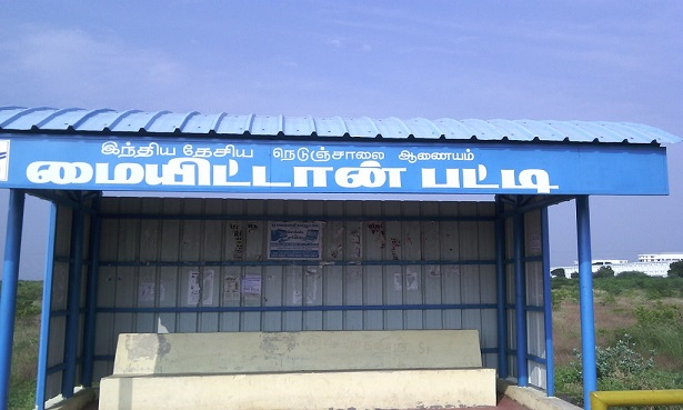 Maittanpatti Villakku Bus Stop. Picture taken in January 2016